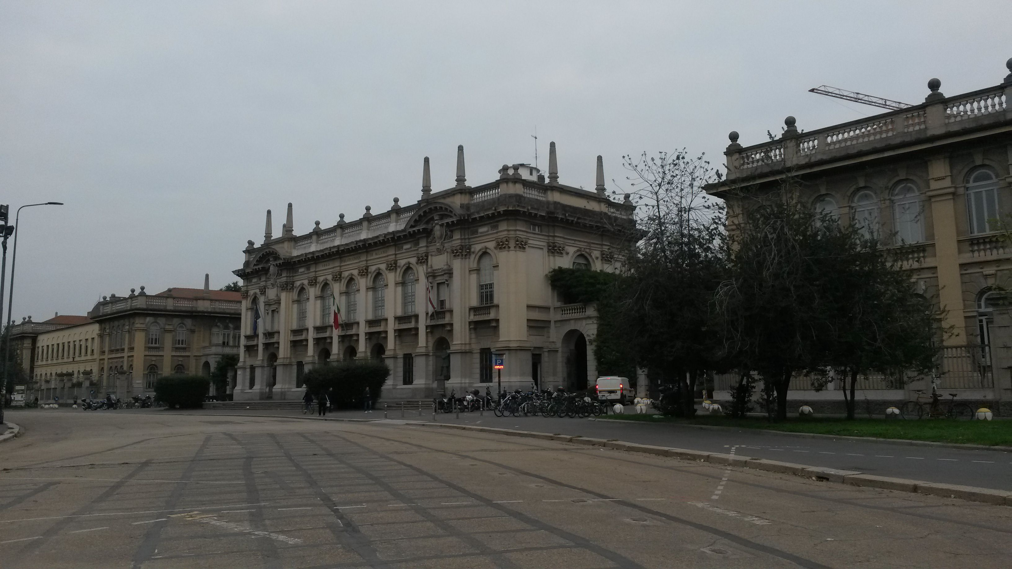 Front facade of the historical building of POLIMI (a.k.a. University Politecnico di Milano) in Leonardo da Vinci square in Milan